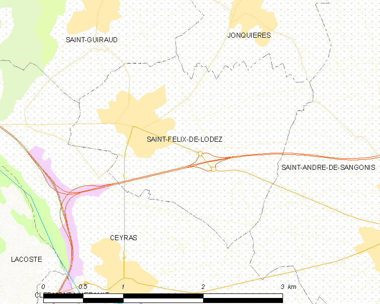 Map commune FR insee code 34254.png - Saint-Félix-de-Lodez